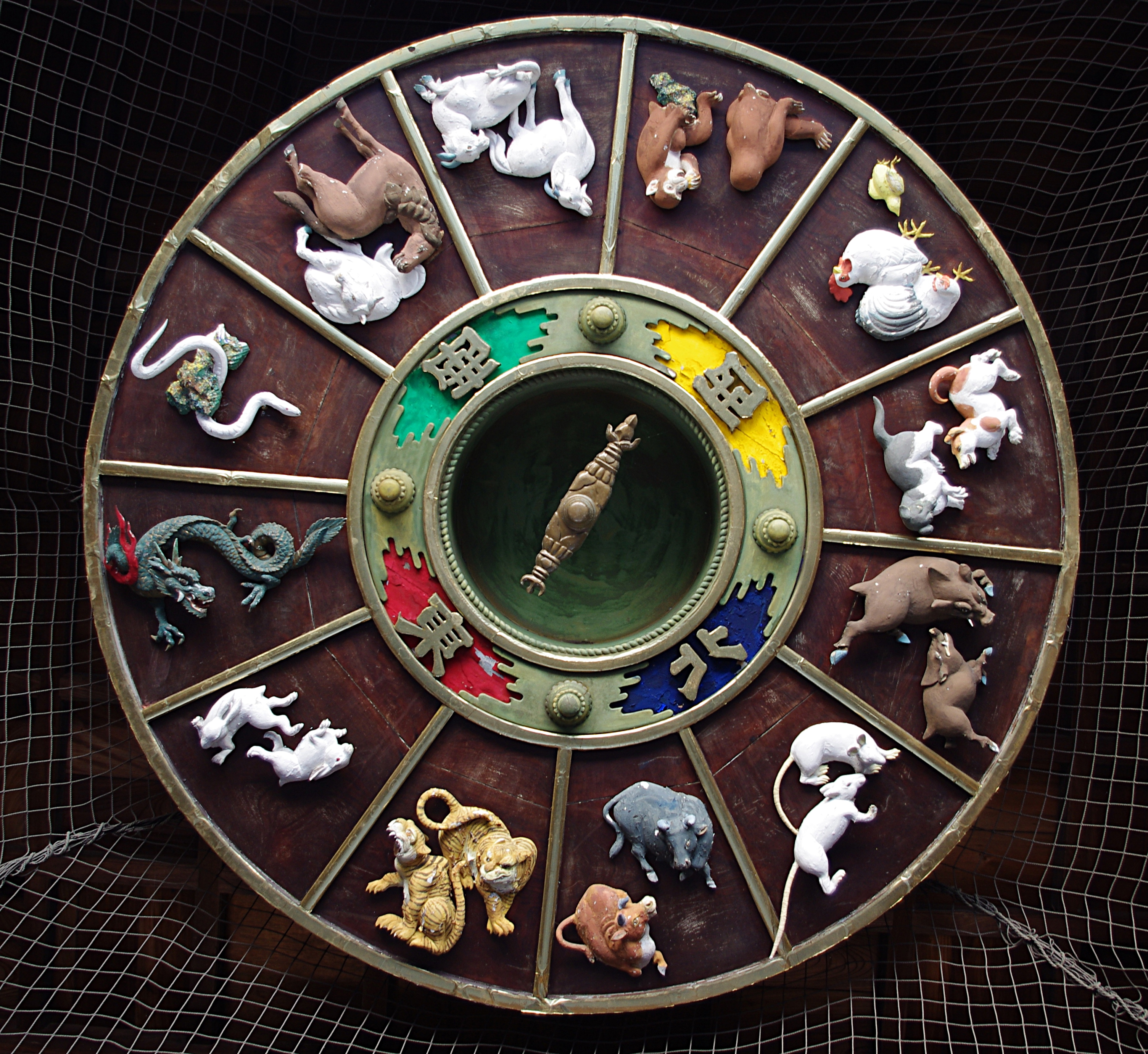 The carvings with Chinese Zodiac on the ceiling of the gate to Kushida Shrine in Fukuoka (mirror image, to have animals in the correct order)